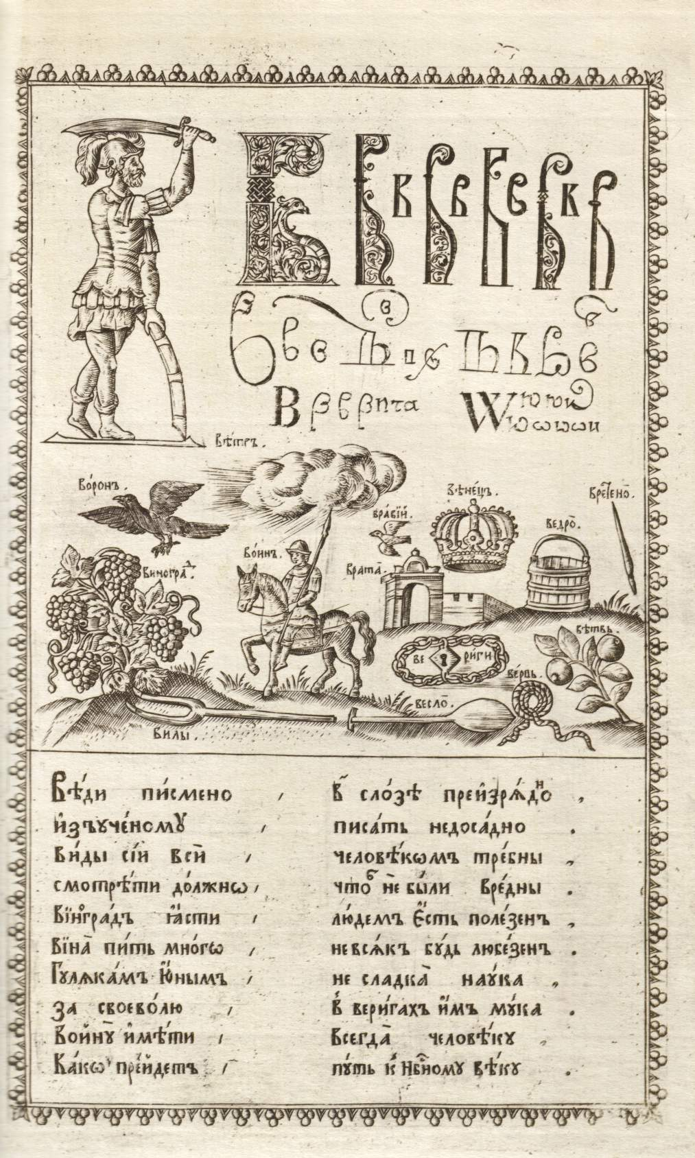 Karion Istomin's alphabet book, letter В